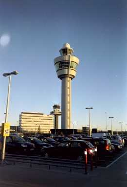 Towers Amsterdam Airport Schiphol